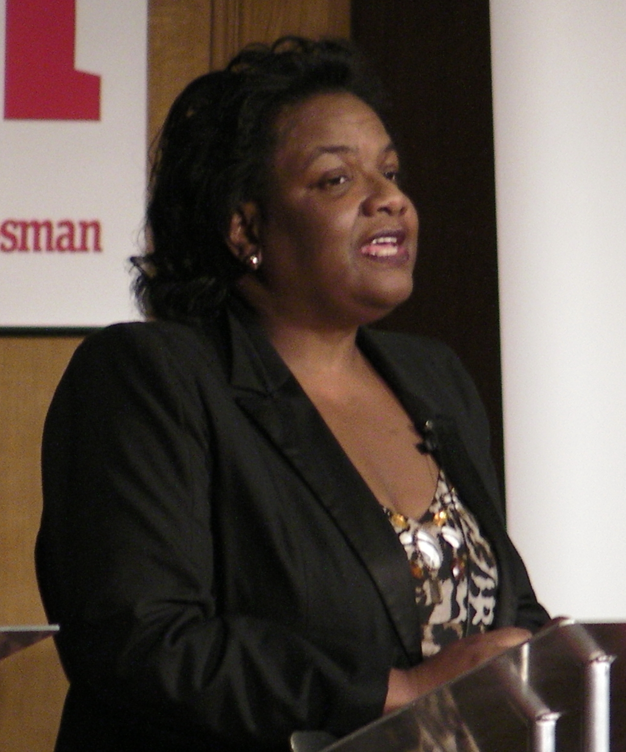 Diane Abbott speaking at the New Statesman hustings for the Labour Party (UK) leadership election, 2010.